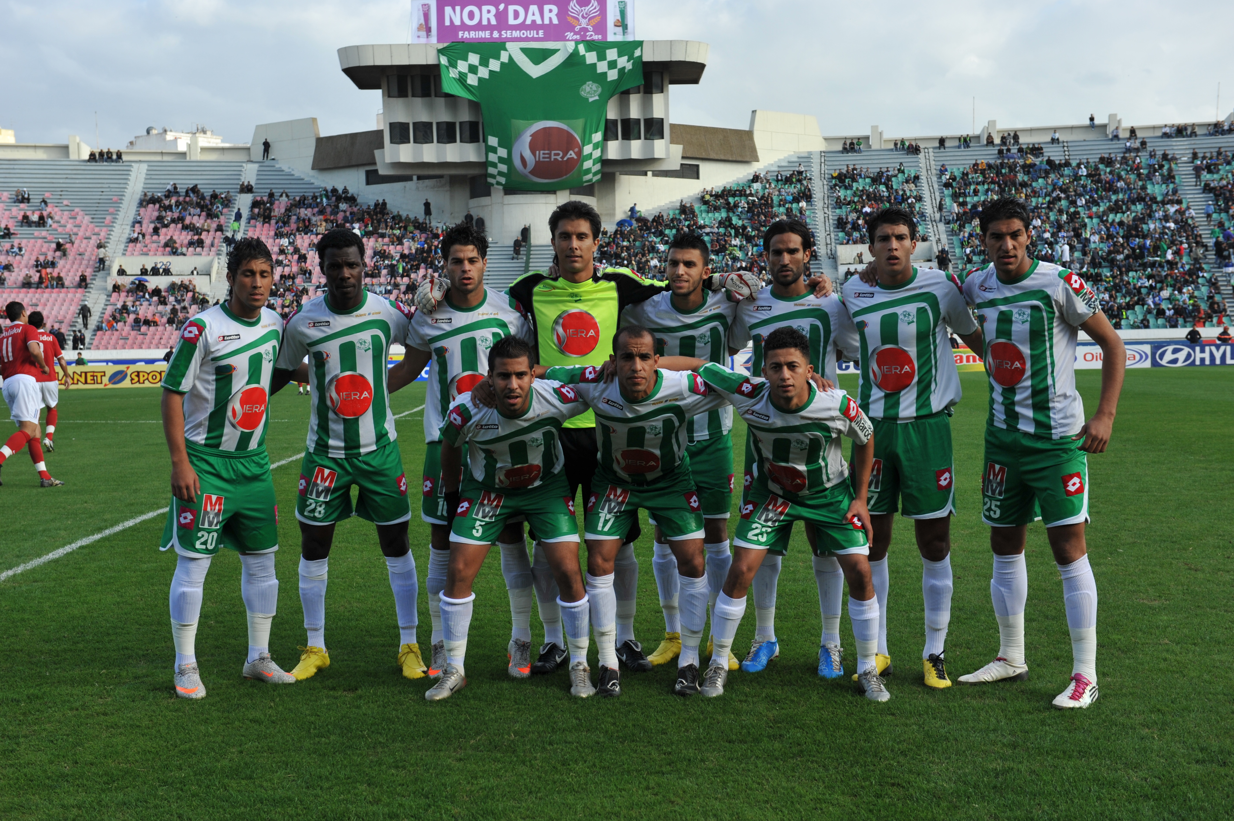 Raja Casablanca, the 27th december 2010